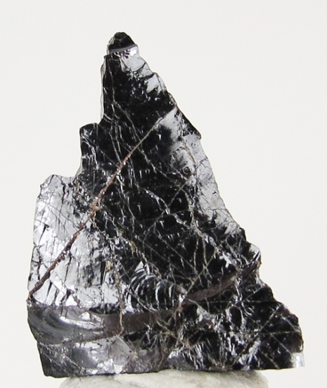 Aeschynite-(Y) Locality: Urstad feldspar quarry, Hidra (Hitterø), Flekkefjord, Vest-Agder, Norway (Locality at ) Size: 2.7 x 2.1 x 1.3 cm Aeschynite-(Y) is a rare, rare-earth species with yttrium as the dominant rare-earth element. This extremely rich piece is from the Type Locality in Norway. Splendent, waxy-lustre, deep brown to nearly black aeschynite-(Y) composes nearly the entire piece, with only a bit of matrix. The specimen looks like obsidian with the conchoidal fracturing, but its not. Ex. Josef Vajdak Collection.